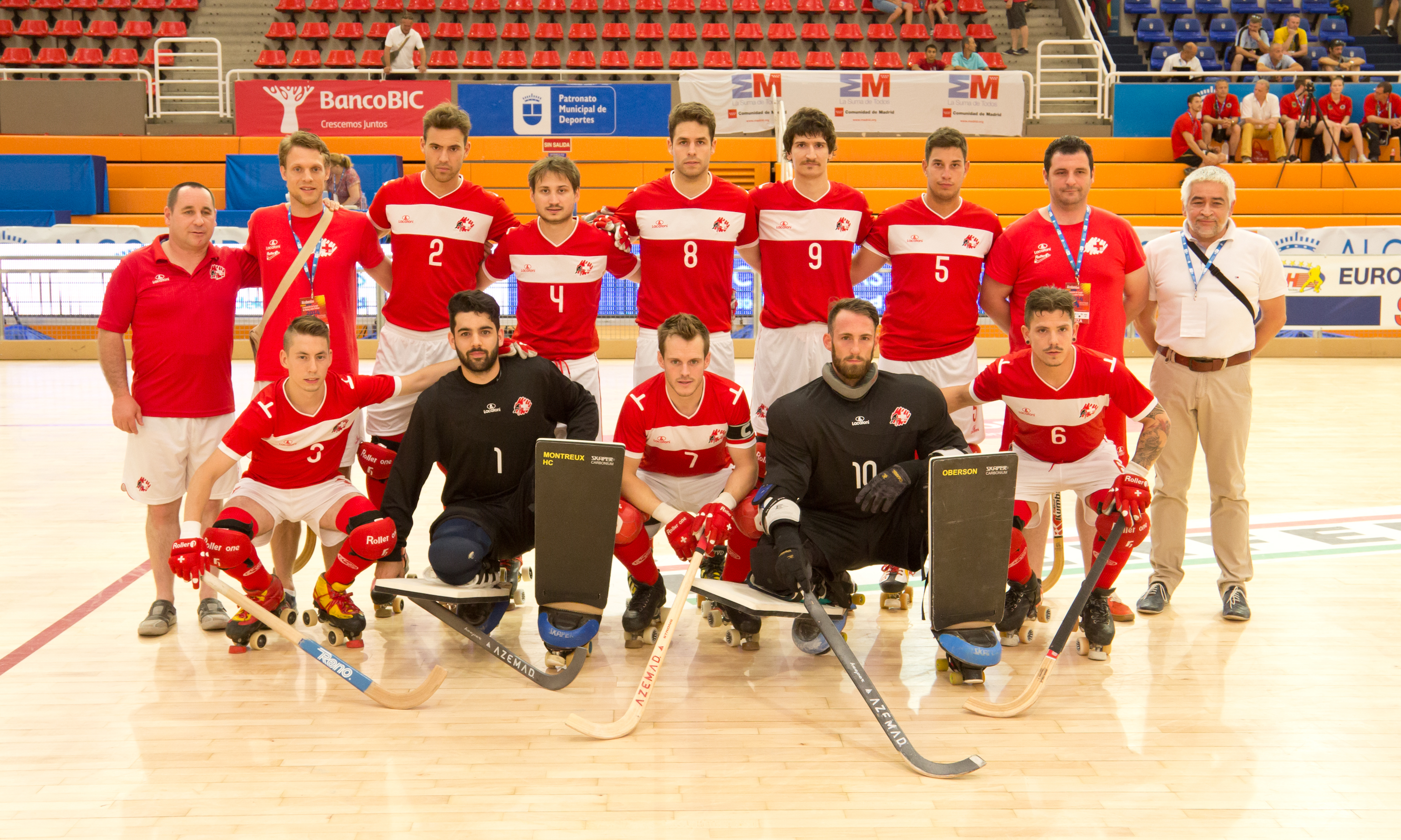 Switzerland national roller hockey team at the 2014 CERH Championship in Alcobendas, Spain.